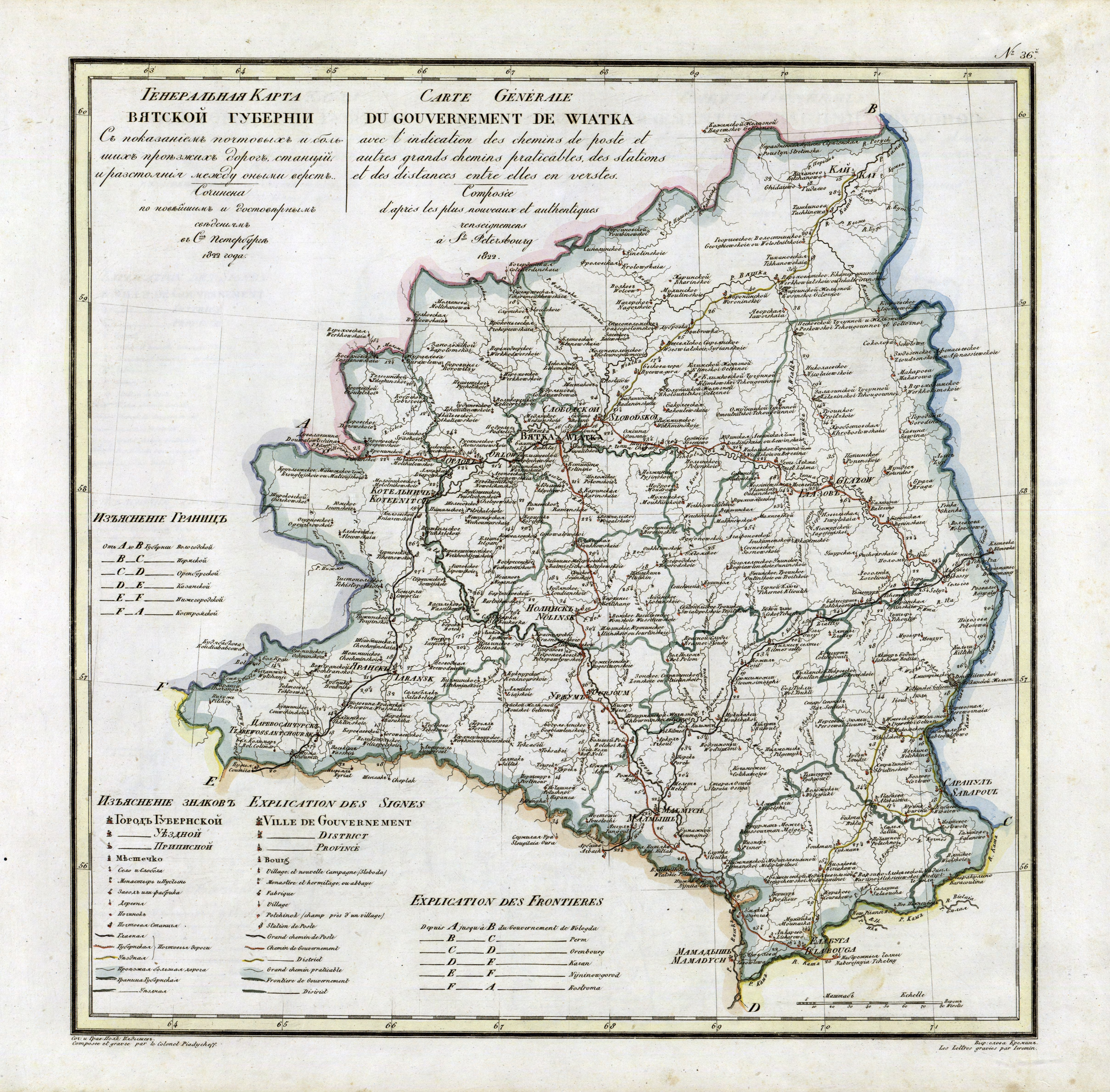 Vyatka Governorate map from geographic atlas of the Russian Empire (1821)